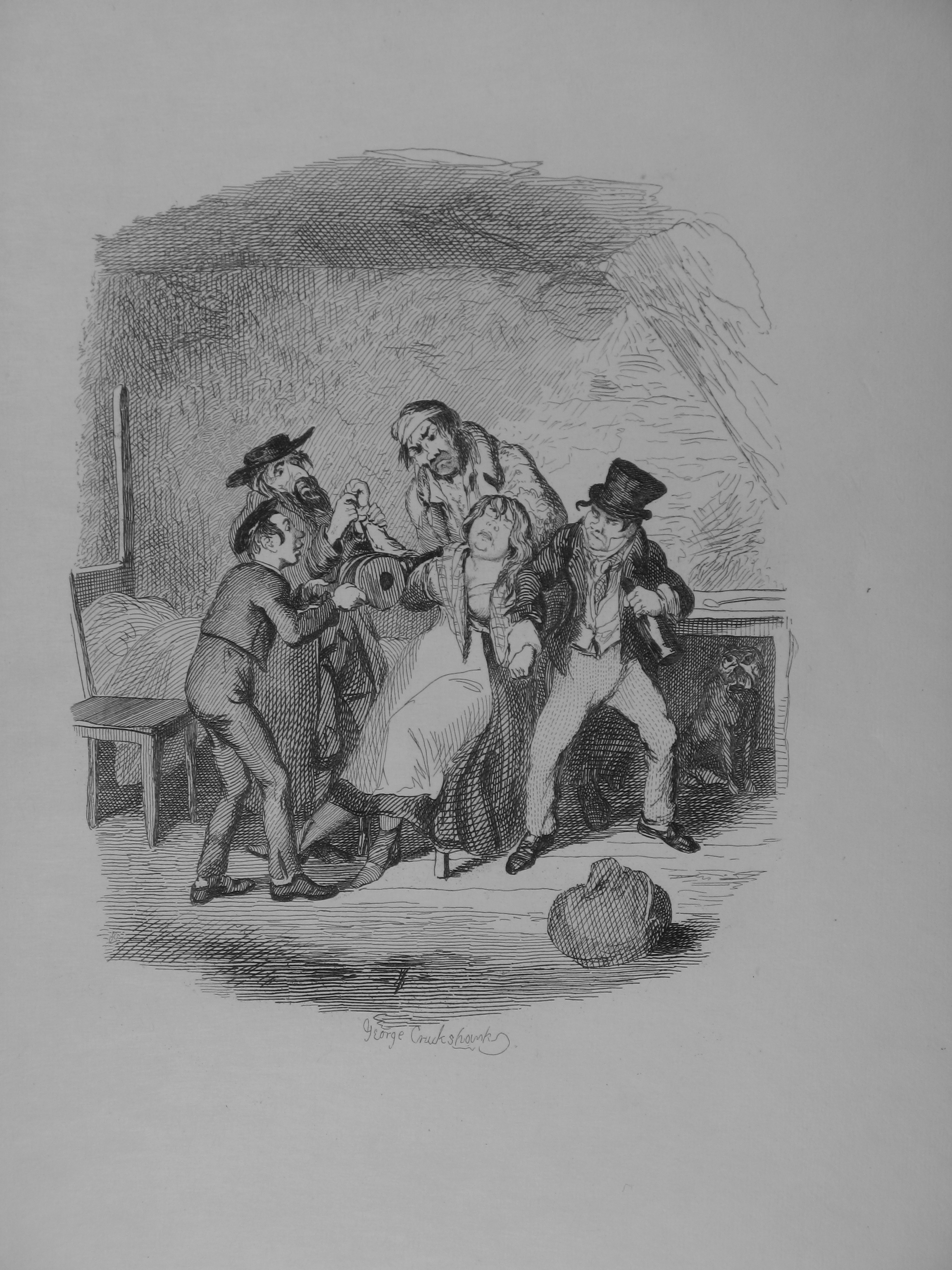 A photograph of an engraving in The Writings of Charles Dickens volume 4, Oliver Twist, titled "Mr. Fagin and his Pupil recovering Nancy".